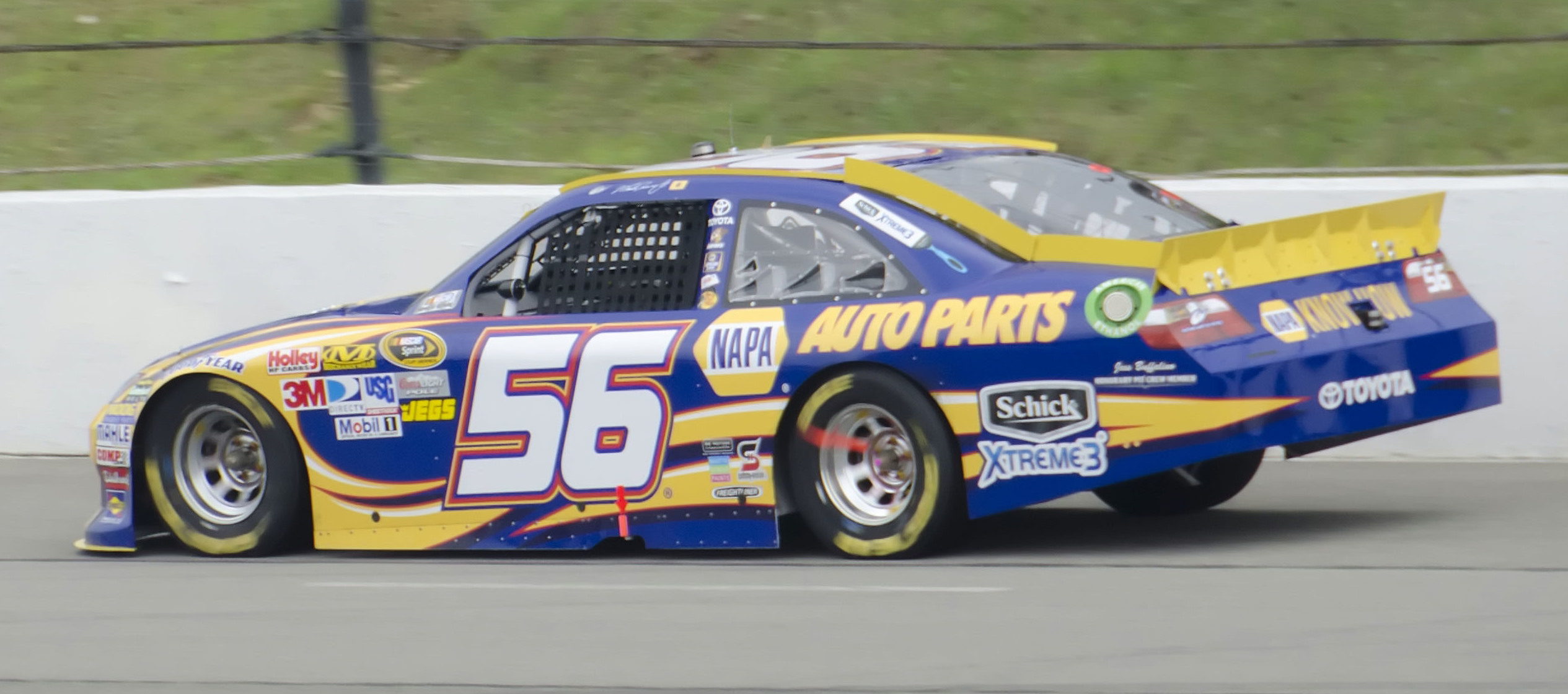 Martin Truex Jr.'s No. 56 NAPA Auto Parts Toyota at Pocono Raceway in 2011